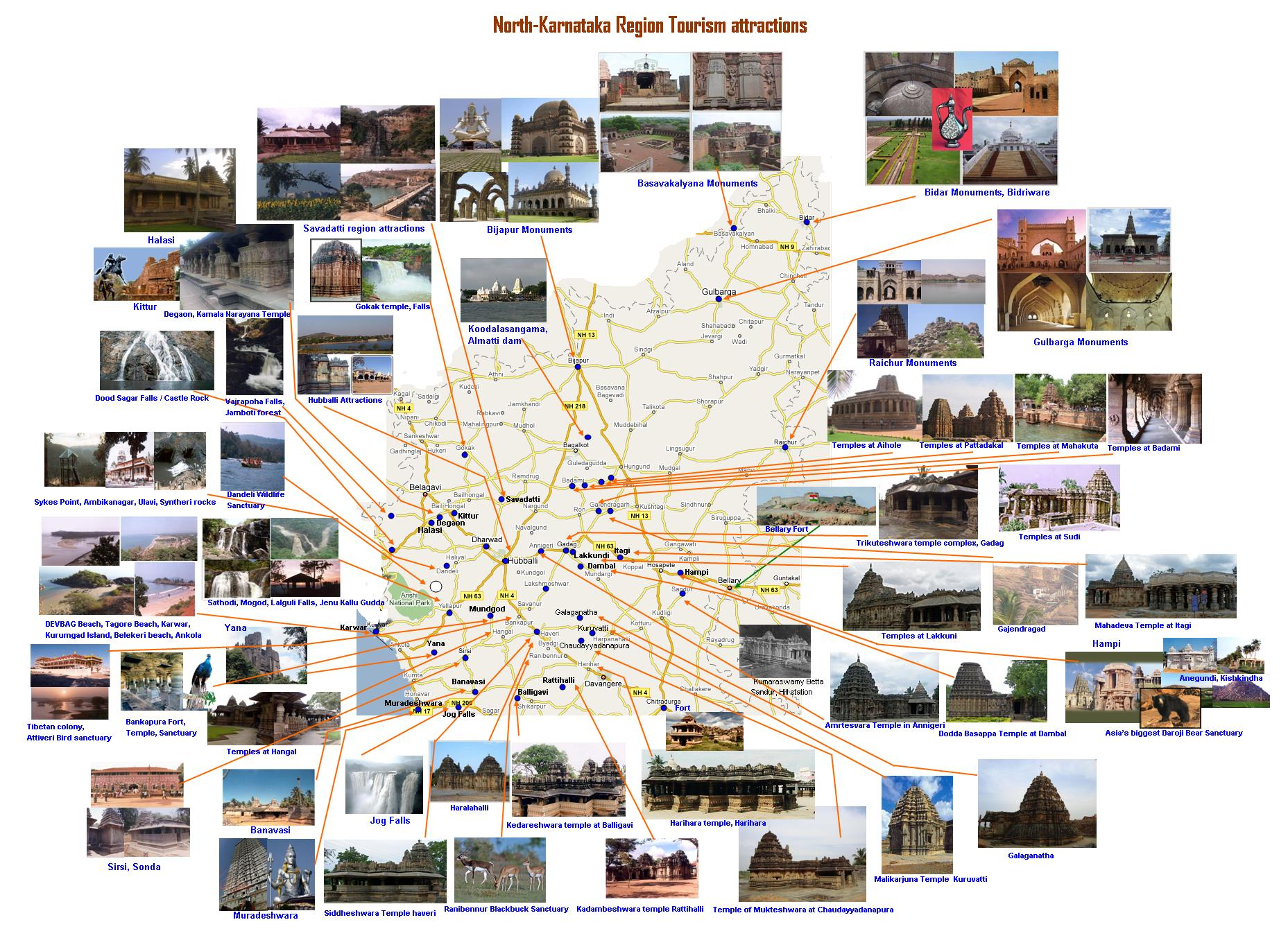 North Karnataka Tourism map Updated on 10.11.2008 Source and Author : Manjunath Doddamani, Gajendragad / Hubli, Karnataka(India)